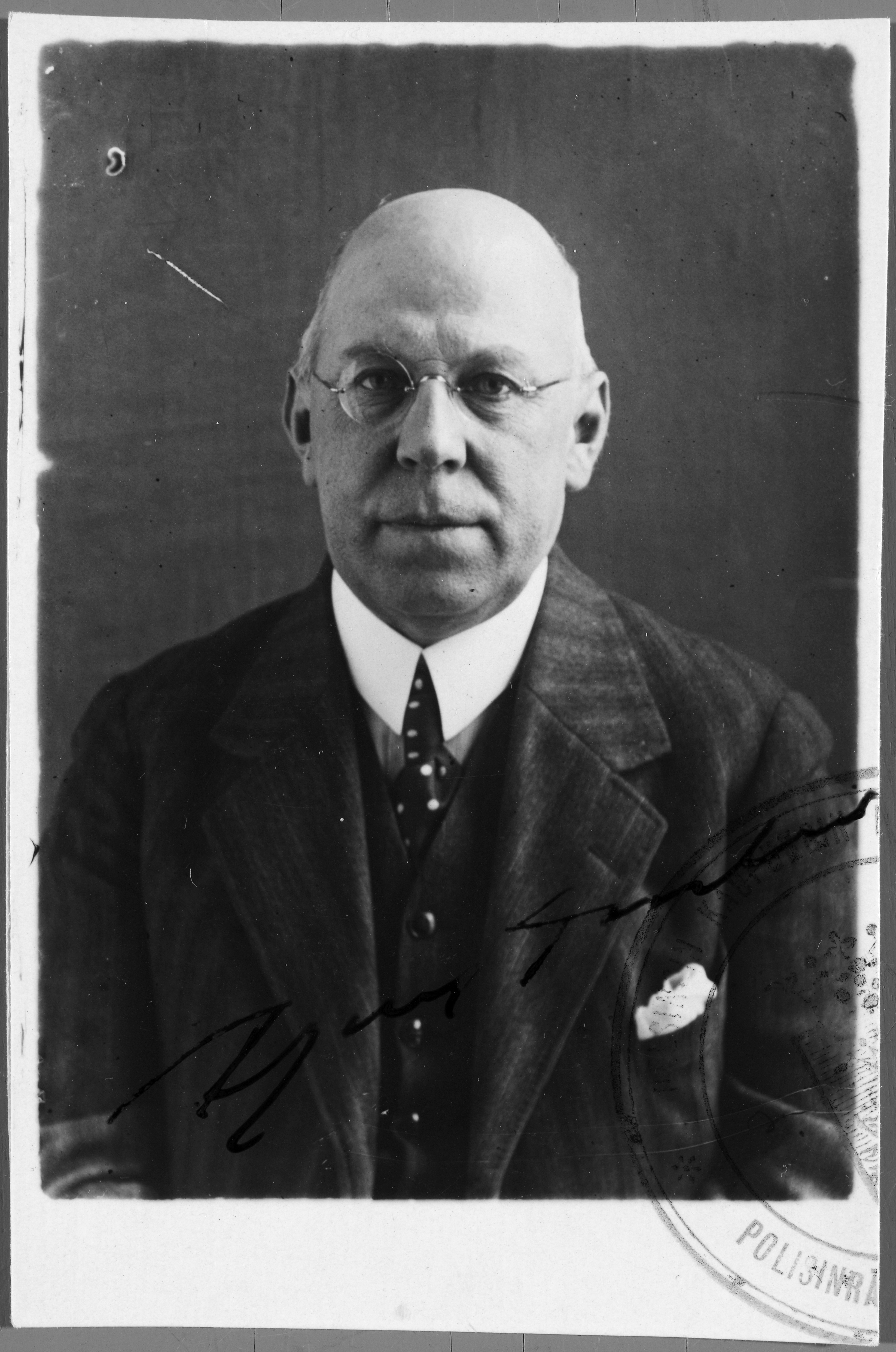 Photograph of the Finnish architect Sigurd Frosterus (1876–1956).